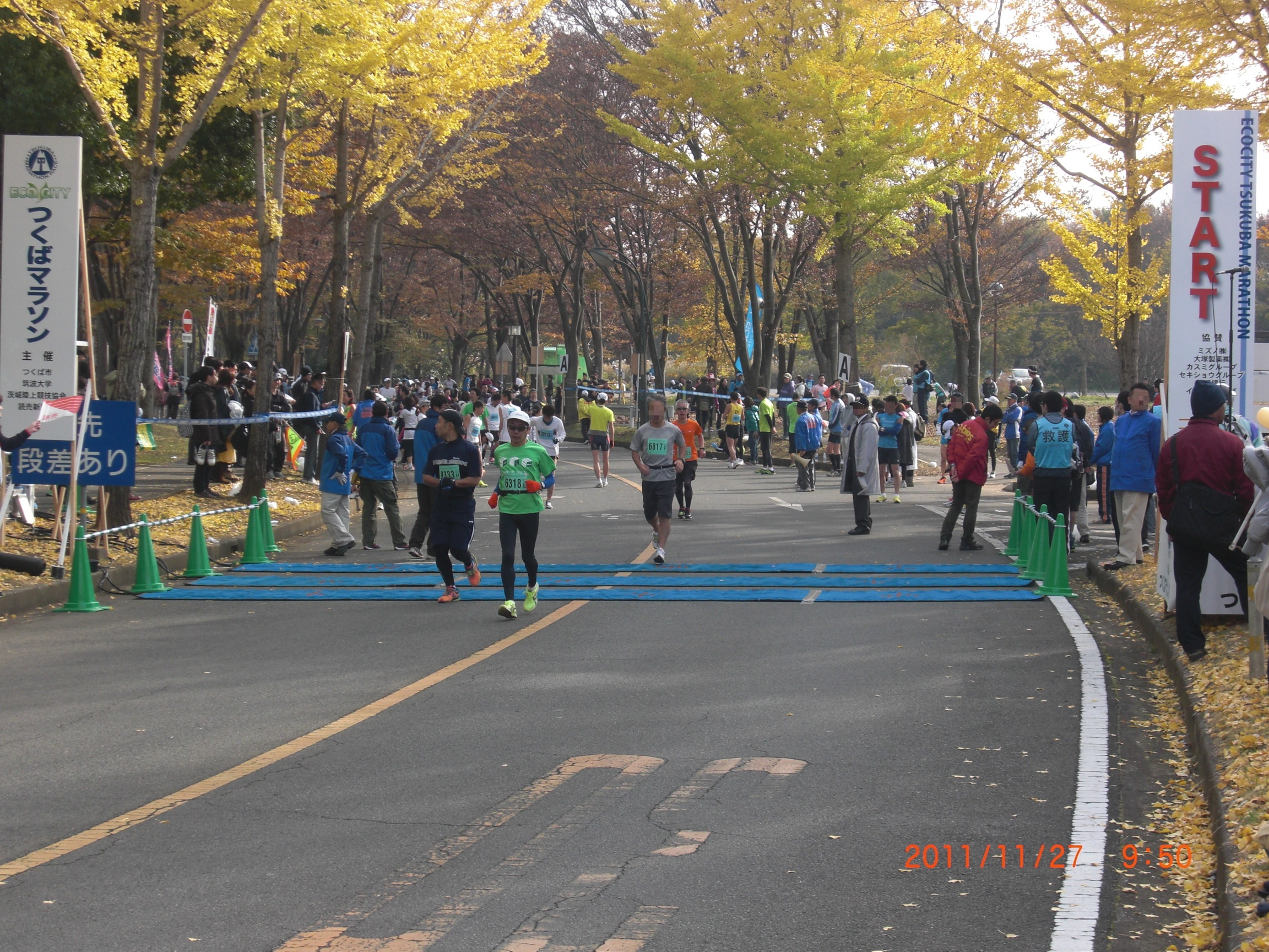 This is the situation after 20 minutes pass since the race start.